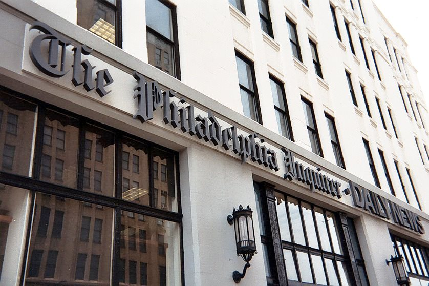 The sign above the entrance to The Philadelphia Inquirer-Daily News Building in Philadelphia, PA. Taken from North Broad Street.